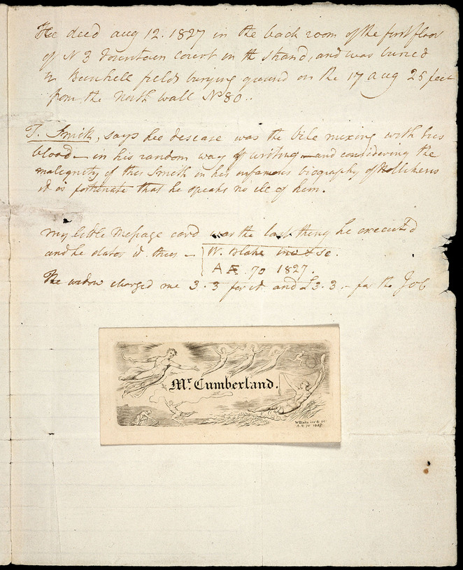 Letter to George Cumberland, 12 April 1827, object 4 Notes by Cumberland